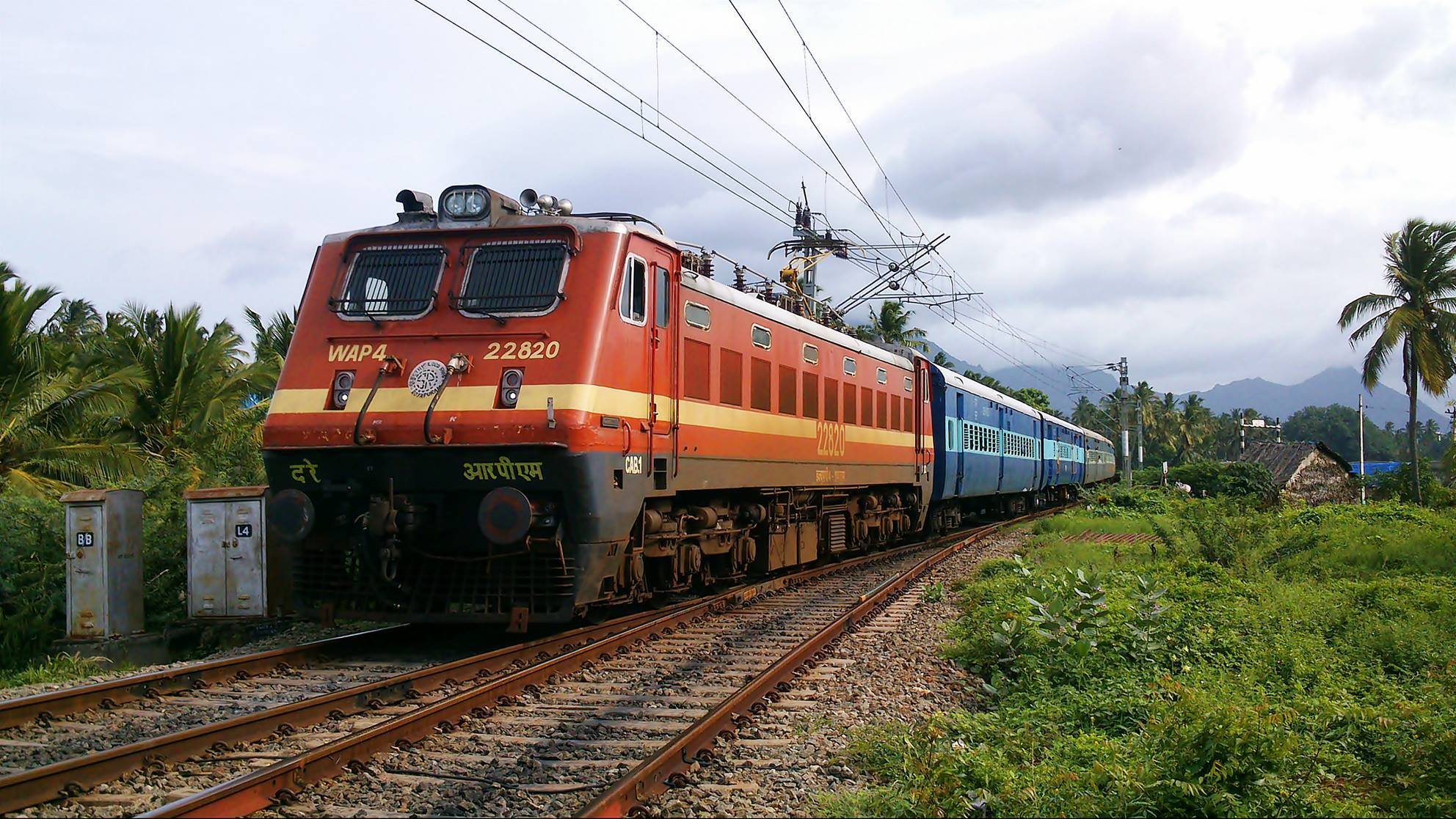 A WAP-4 class locomotive 22820 of Indian Railway belonging to shed Royapuram, bringing the Trivandrum - Nagercoil Passenger train to Nagercoil Jn.